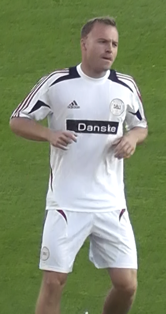 Lars Jacobsen warming up for Denmark vs Slovakia